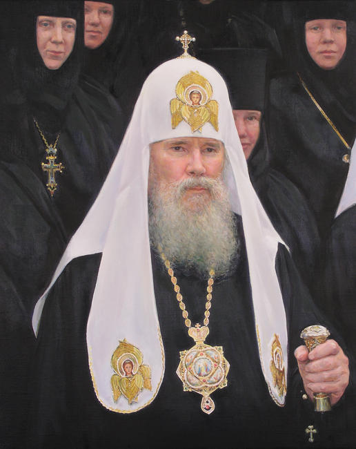 2006 Certificate of Excellence. PSOA